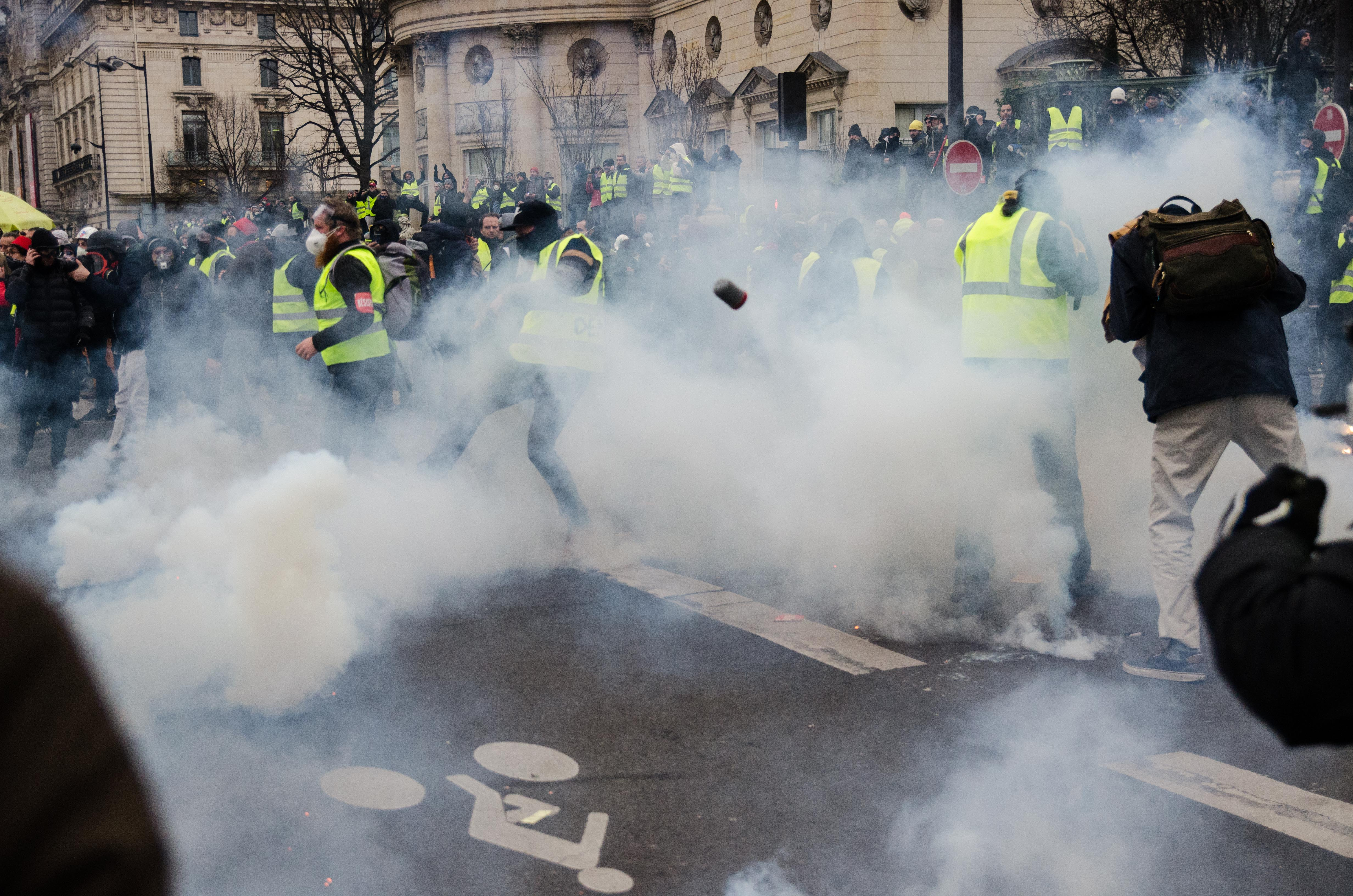 Mouvement des gilets jaunes, Paris, 05 Jan 2019